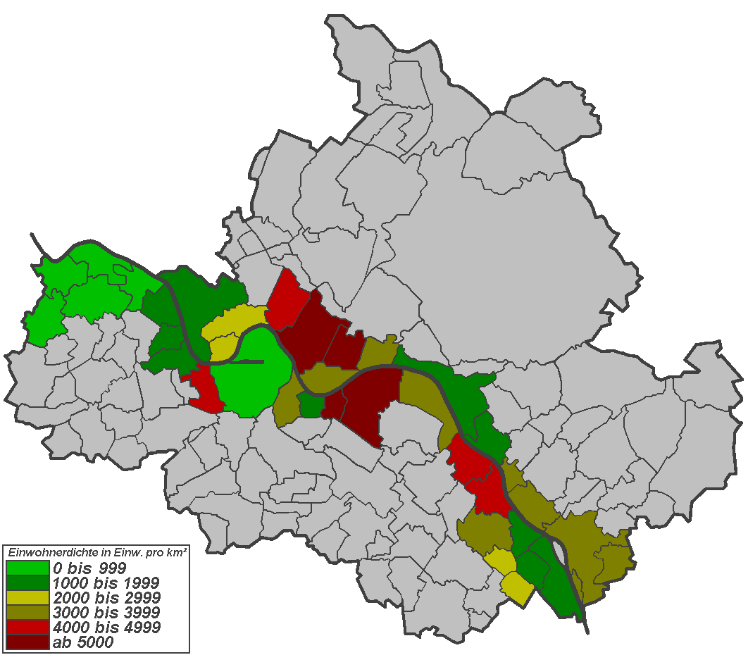 Population density of districts in Dresden next to the River Elbe